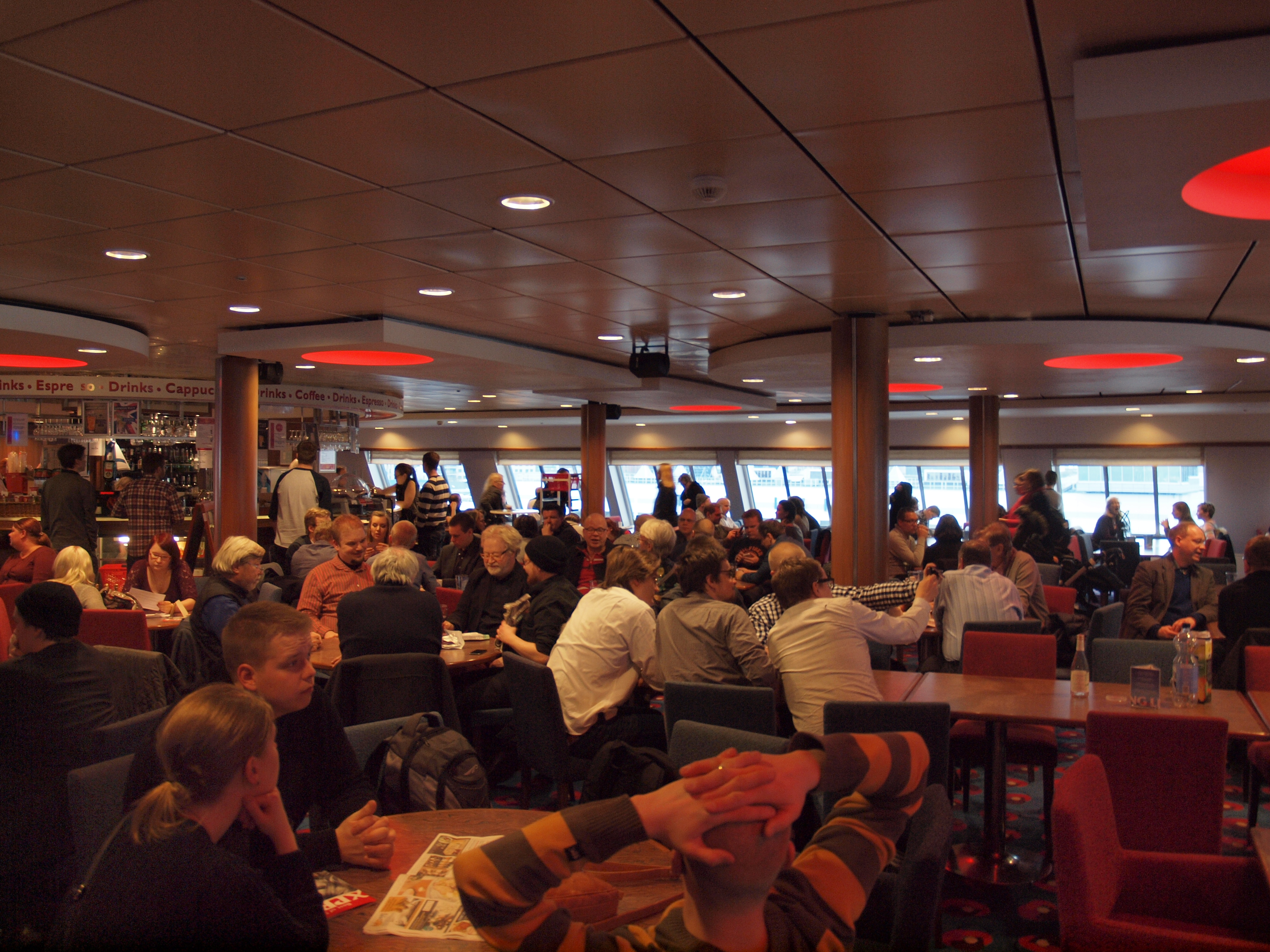 Red Rose Café, the biggest restaurant aboard the Viking XPRS, during the pub quiz Finnish championships on 7 February 2015. The championships take place when the ship is docked in Tallinn so as not to disturb other restaurant guests during the voyage. Neither the contestants, judges or presenters ever get to visit Tallinn.